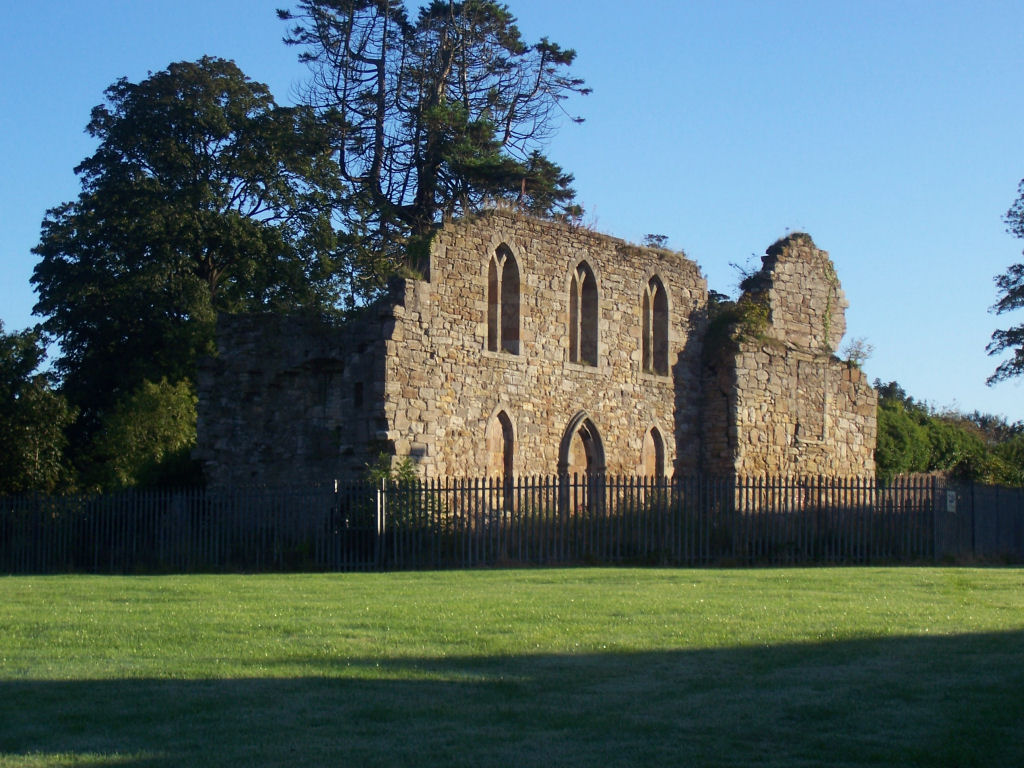 Kerelaw Castle ruin early on a September morning, 2006. Photograph by Dreamer84.